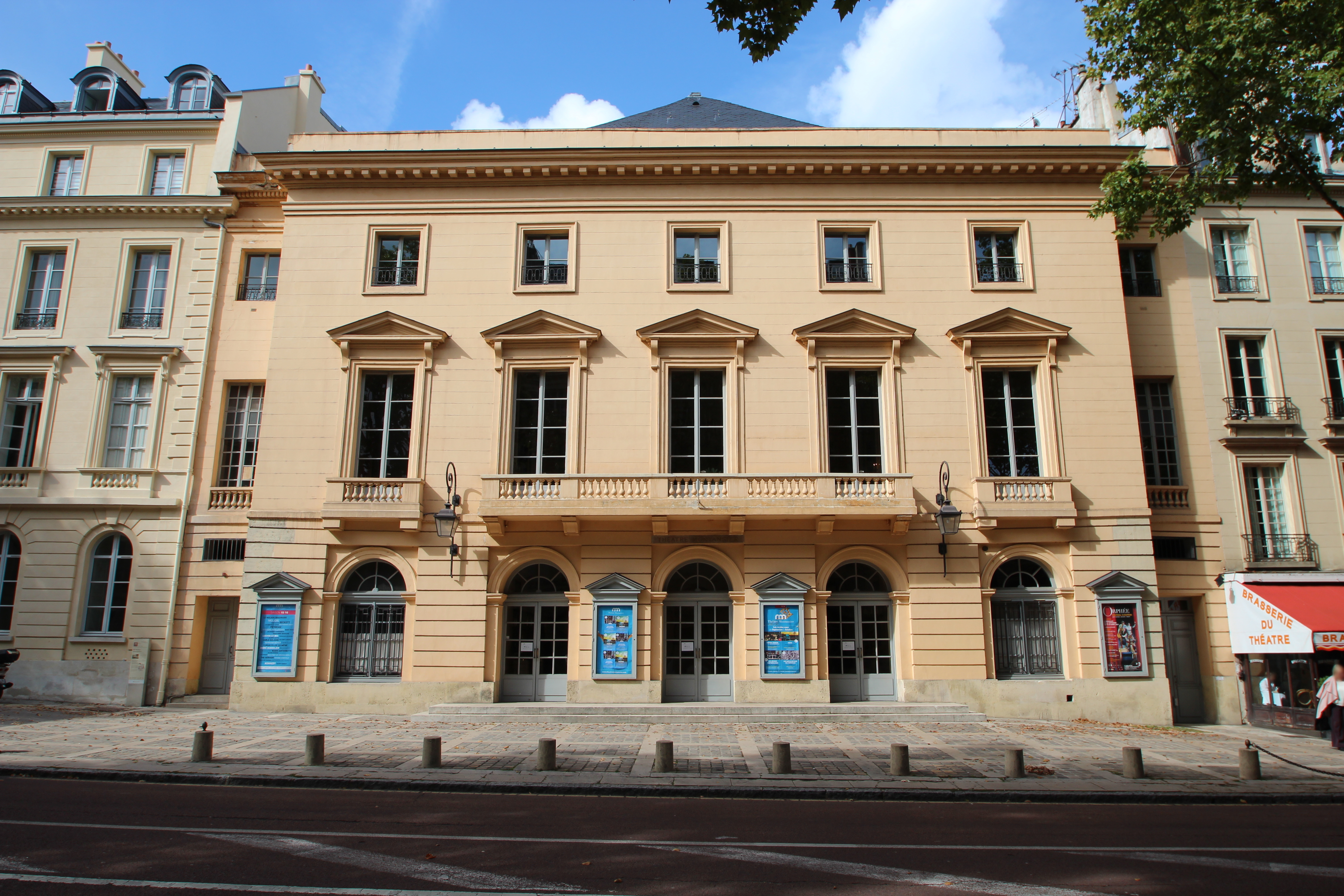 Théâtre Montansier (Montansier theatre) in Versailles, France. Object location48° 48′ 29.15″ N, 2° 07′ 27.45″ E .